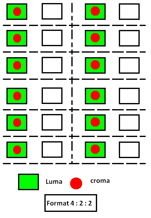 Format 4:2:2